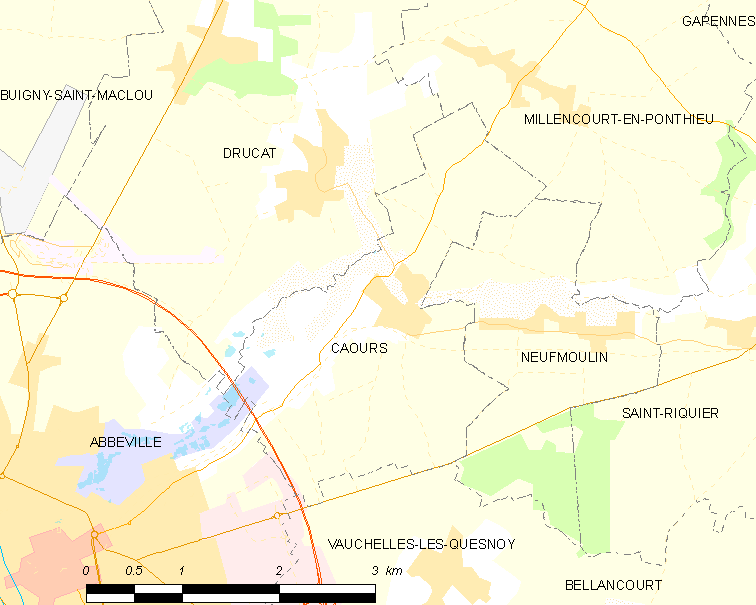 Map of French municipality Caours